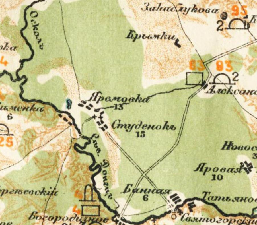 map of Izum region